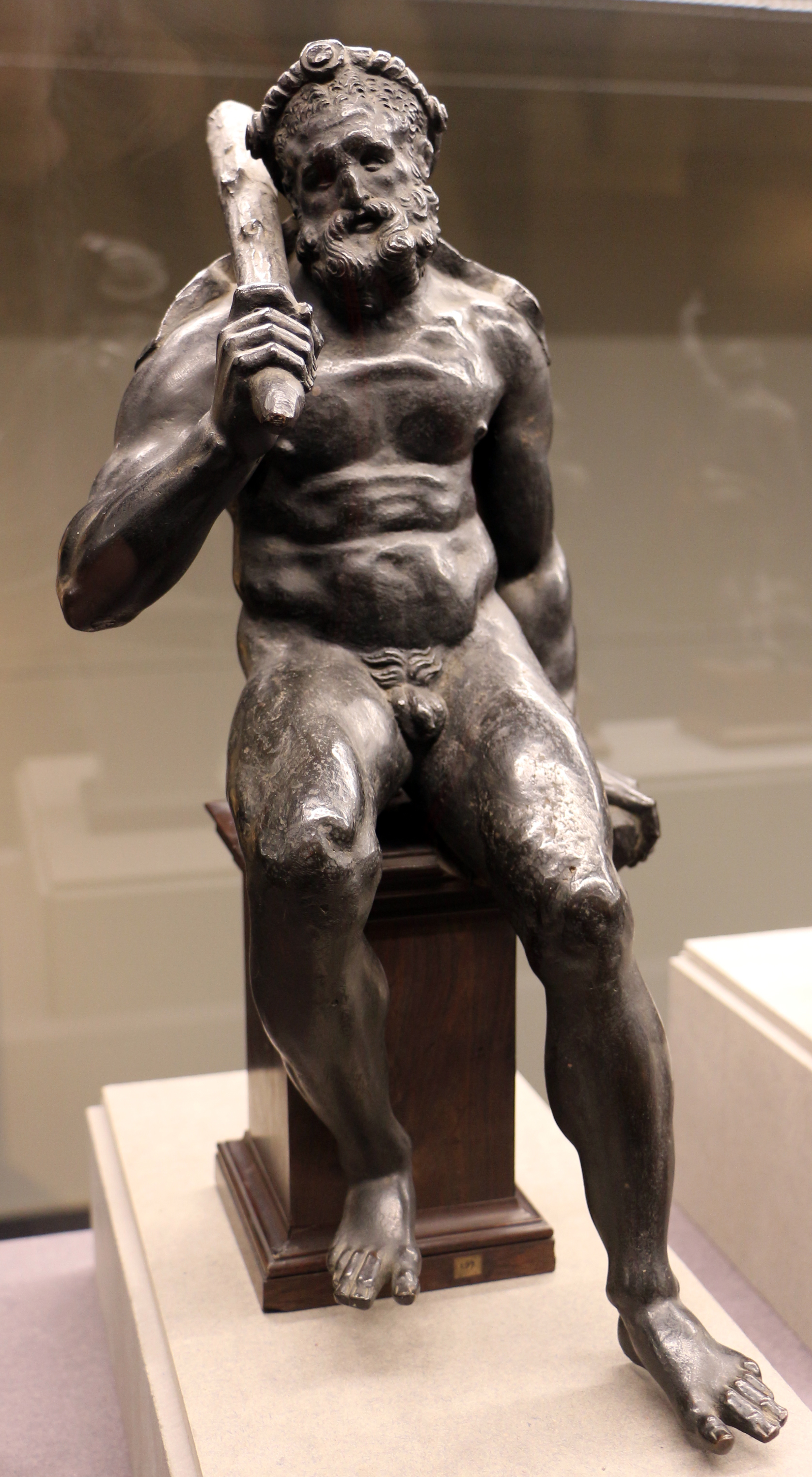 Ancient Roman bronze statuettes in the Museo archeologico nazionale (Florence)